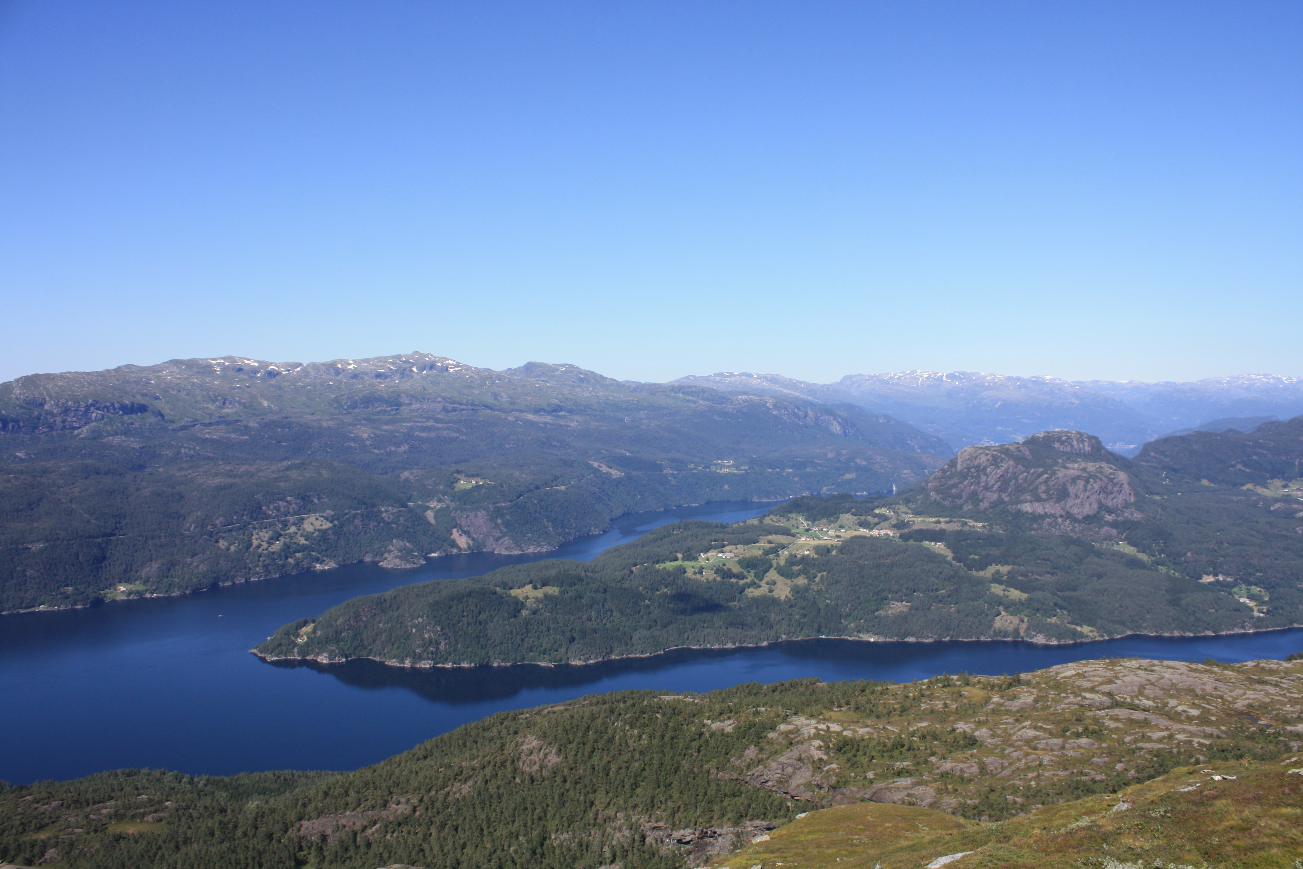 Sandsfjorden to the left, Hylsfjorden in the foreground, and Saudafjorden in the background